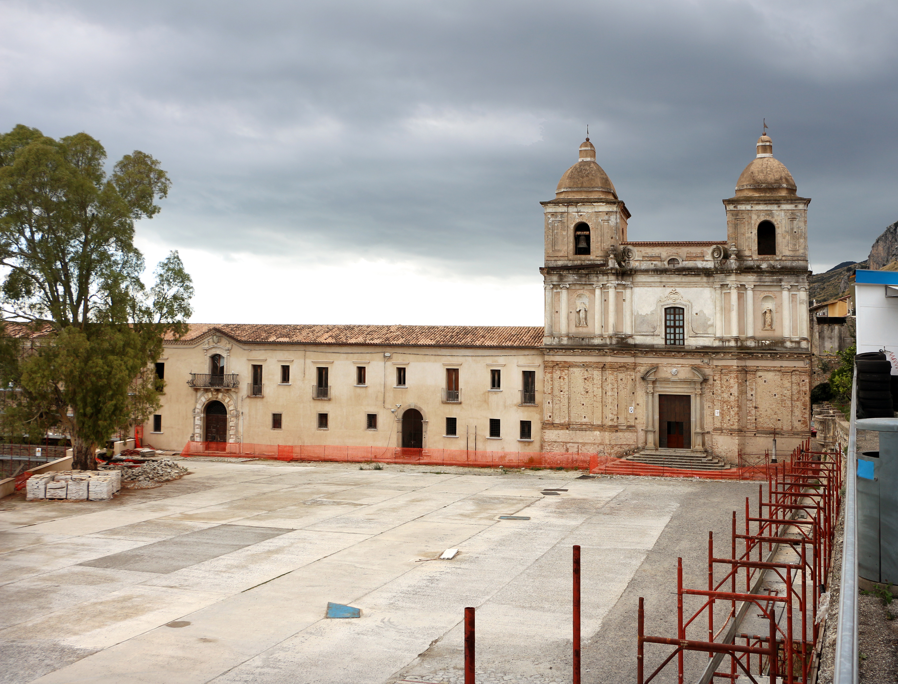 Buildings in Stilo